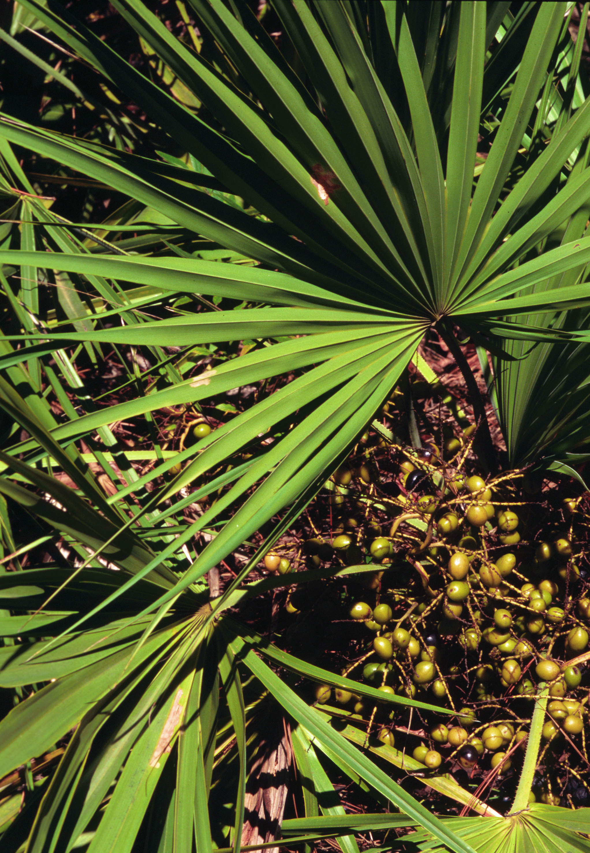 Serenoa repens foliage and fruit. Photo from Forest Plants of the Southeast and Their Wildlife Uses by J.H. Miller and K.V. Miller, published by The University of Georgia Press in cooperation with the Southern Weed Science Society.